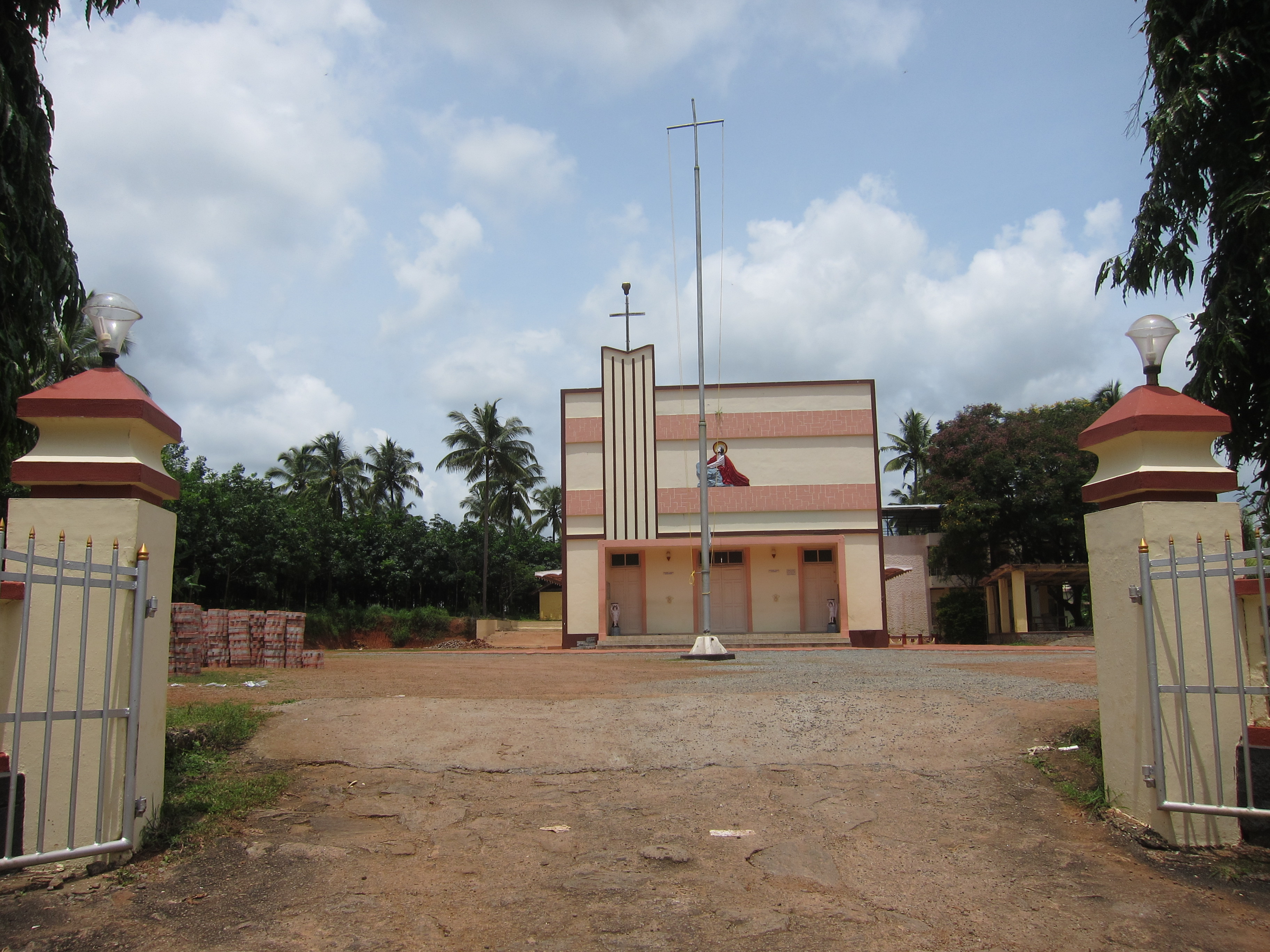 Velayanadu - St. Mary's Church, Near Vellangaloor, Irinjalakuda Diocese, Thrissur District, Vellangaloor Panjchayath വെളയനാട് സെന്റ് മേരീസ് ചർച്ച്, വെള്ളാങ്ങല്ലൂരിനടുത്ത്, ഇരിങ്ങാലക്കുട രൂപത, തൃശ്ശൂർ ജില്ല, വെള്ളാങ്ങല്ലൂർ പഞ്ചായത്ത്